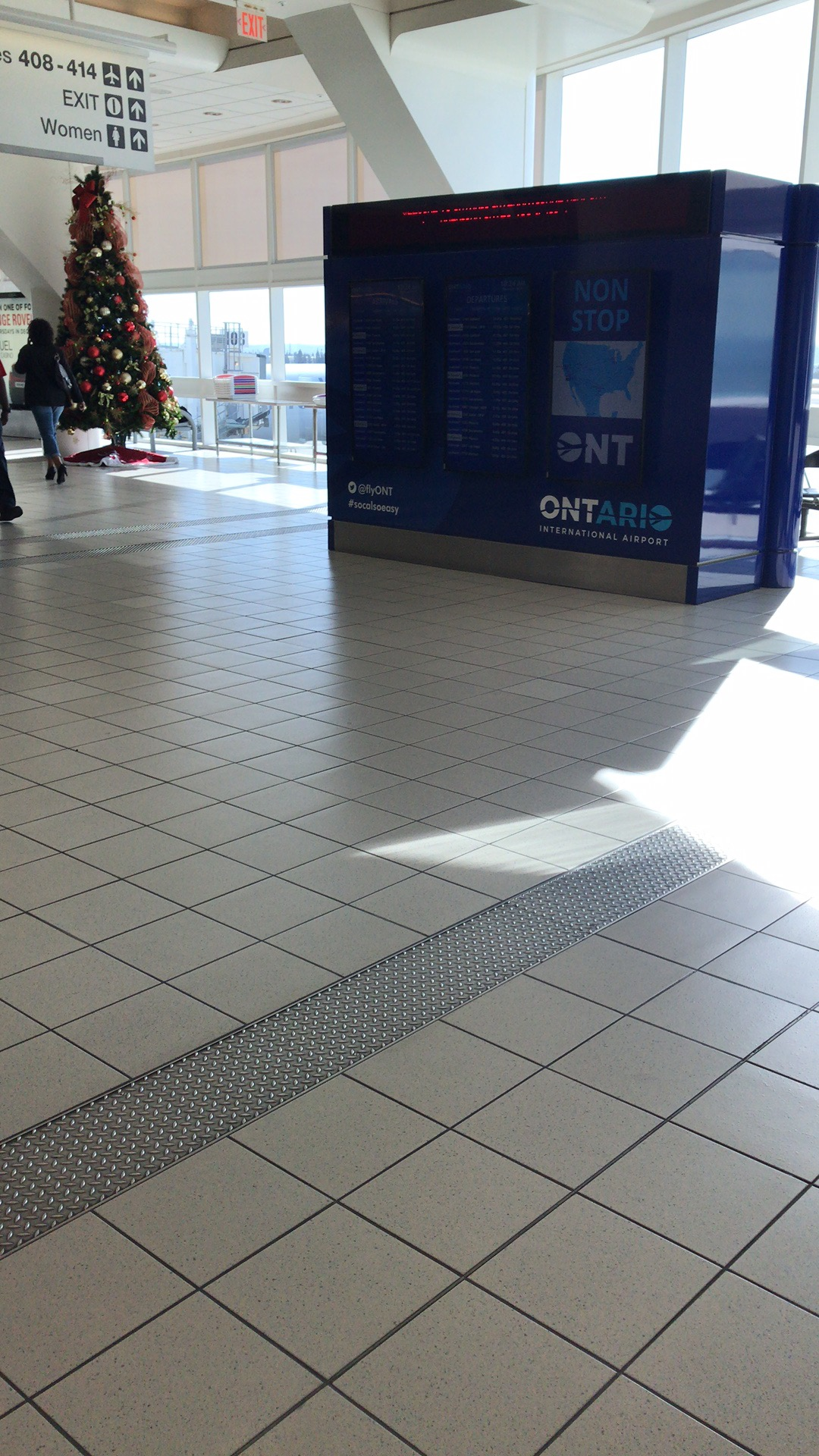 中文（香港）: Arrived and Departure LCD Display at ONT